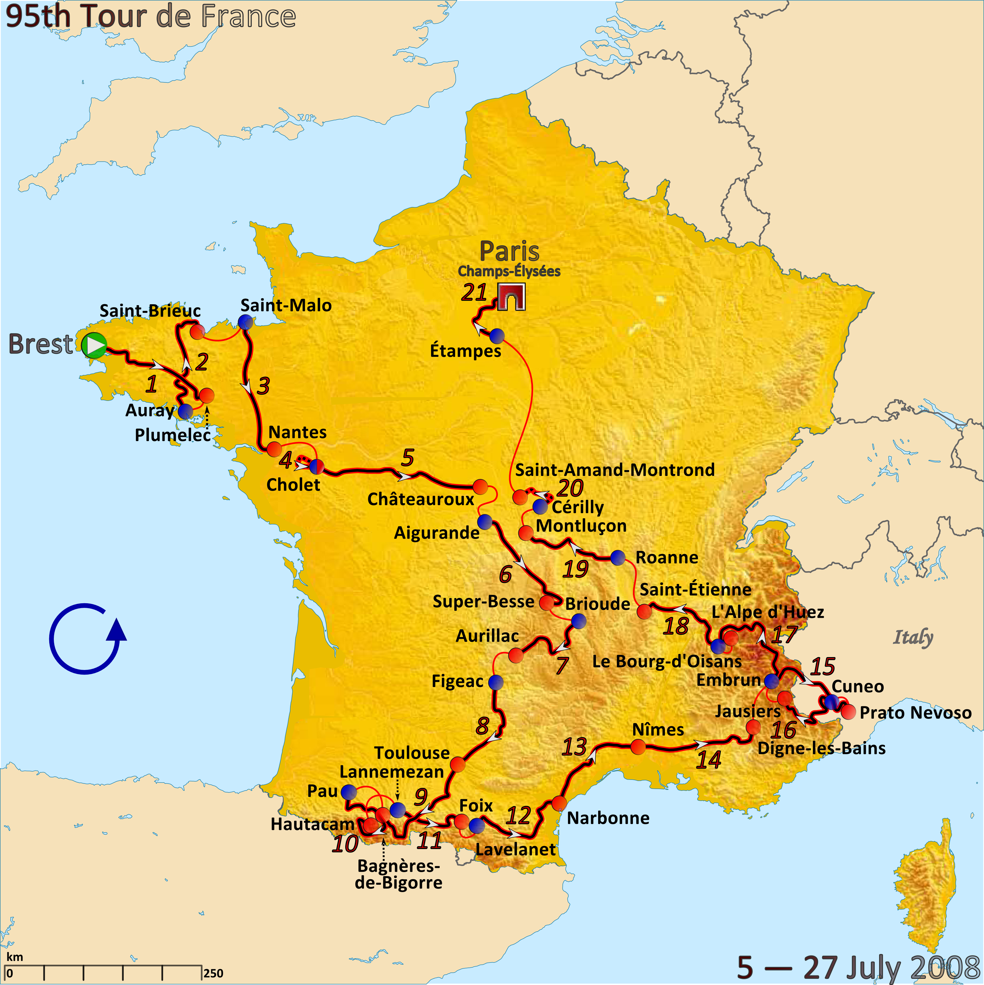 Map of the 2008 Tour de France created in Inkscape